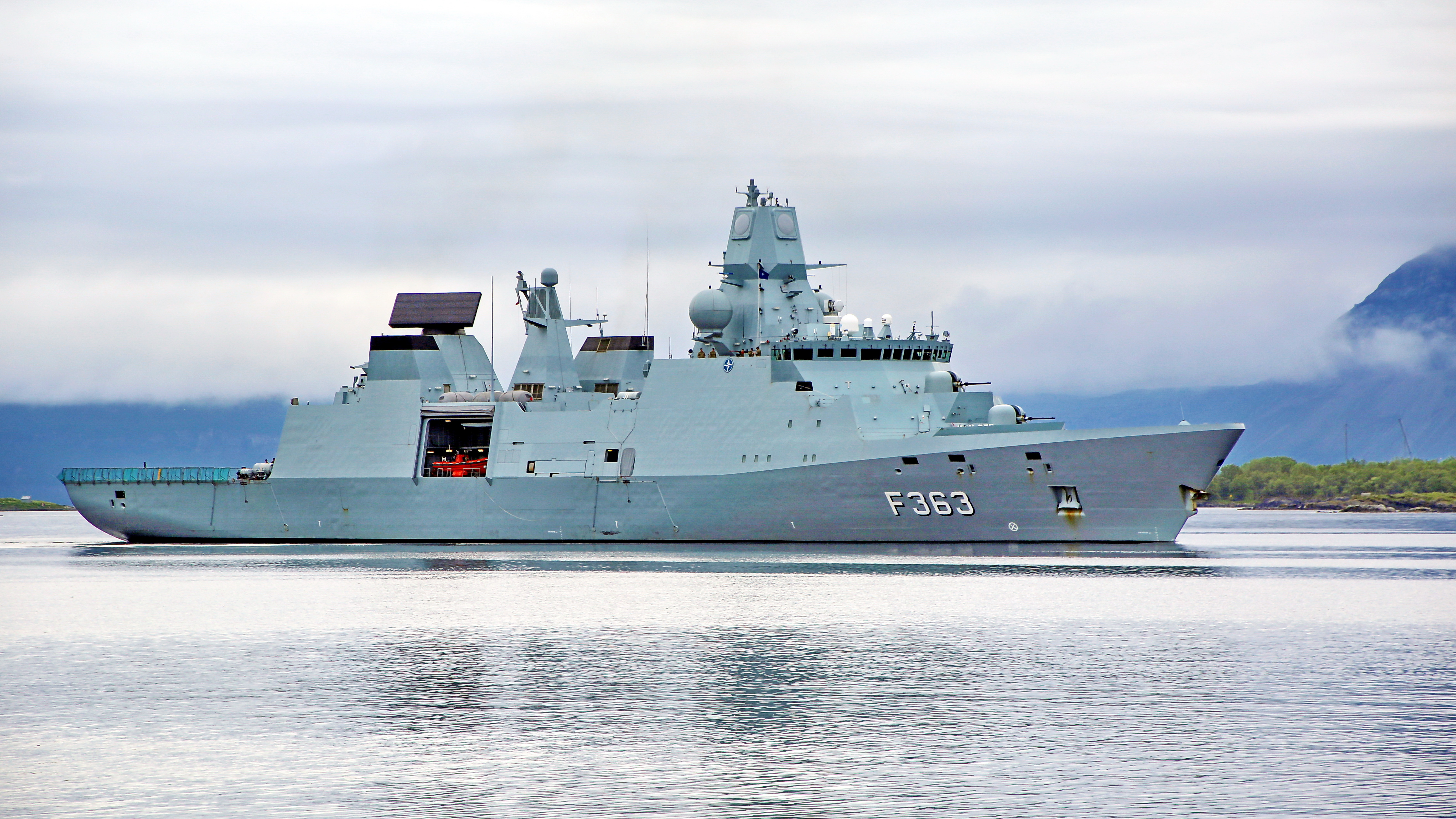 Air defence frigate Niels Juel (F363) in June 2018 close to Harstad (Norway)